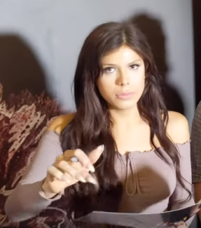 Blaire White posing for a photo